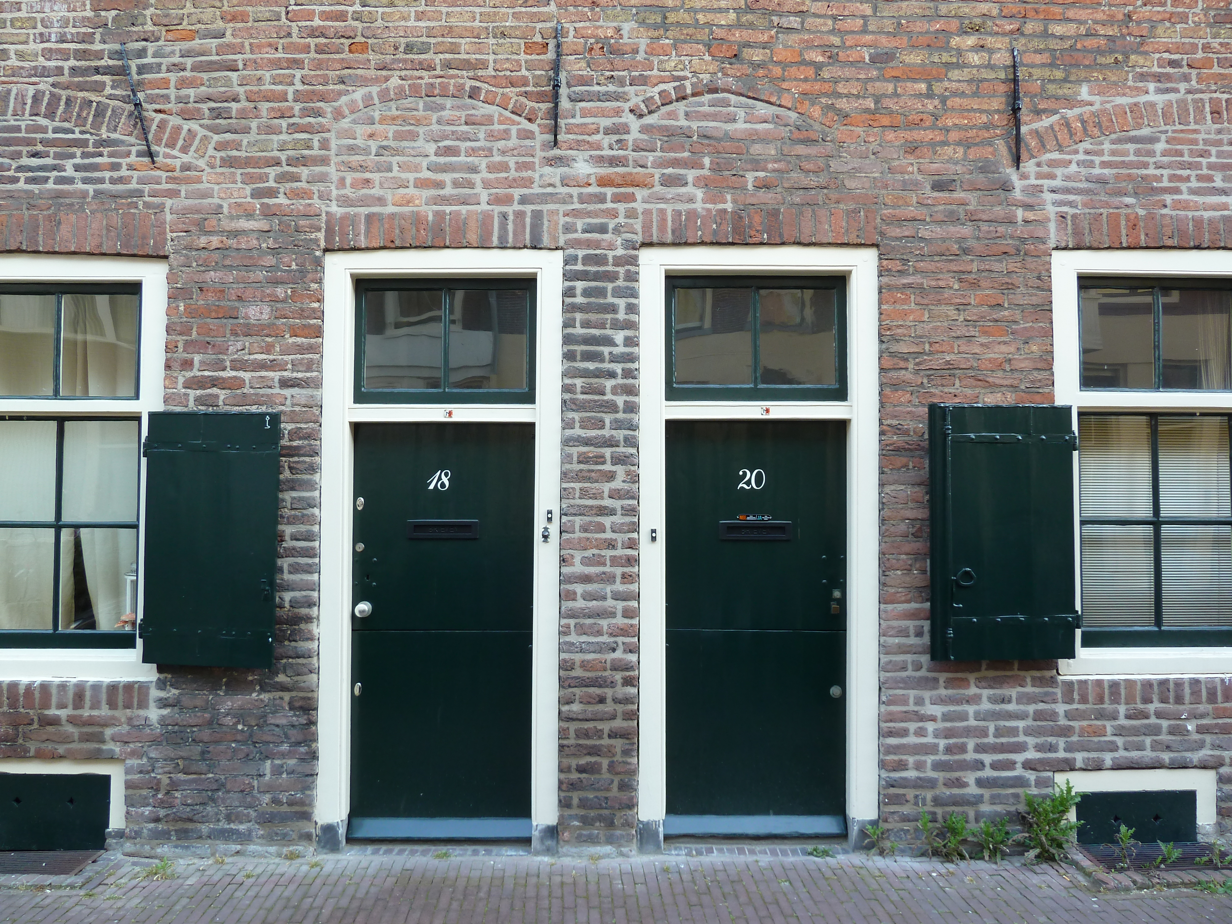 Margaretenhof. Jansveld, Utrecht, NL. Houses for poor people from 1562